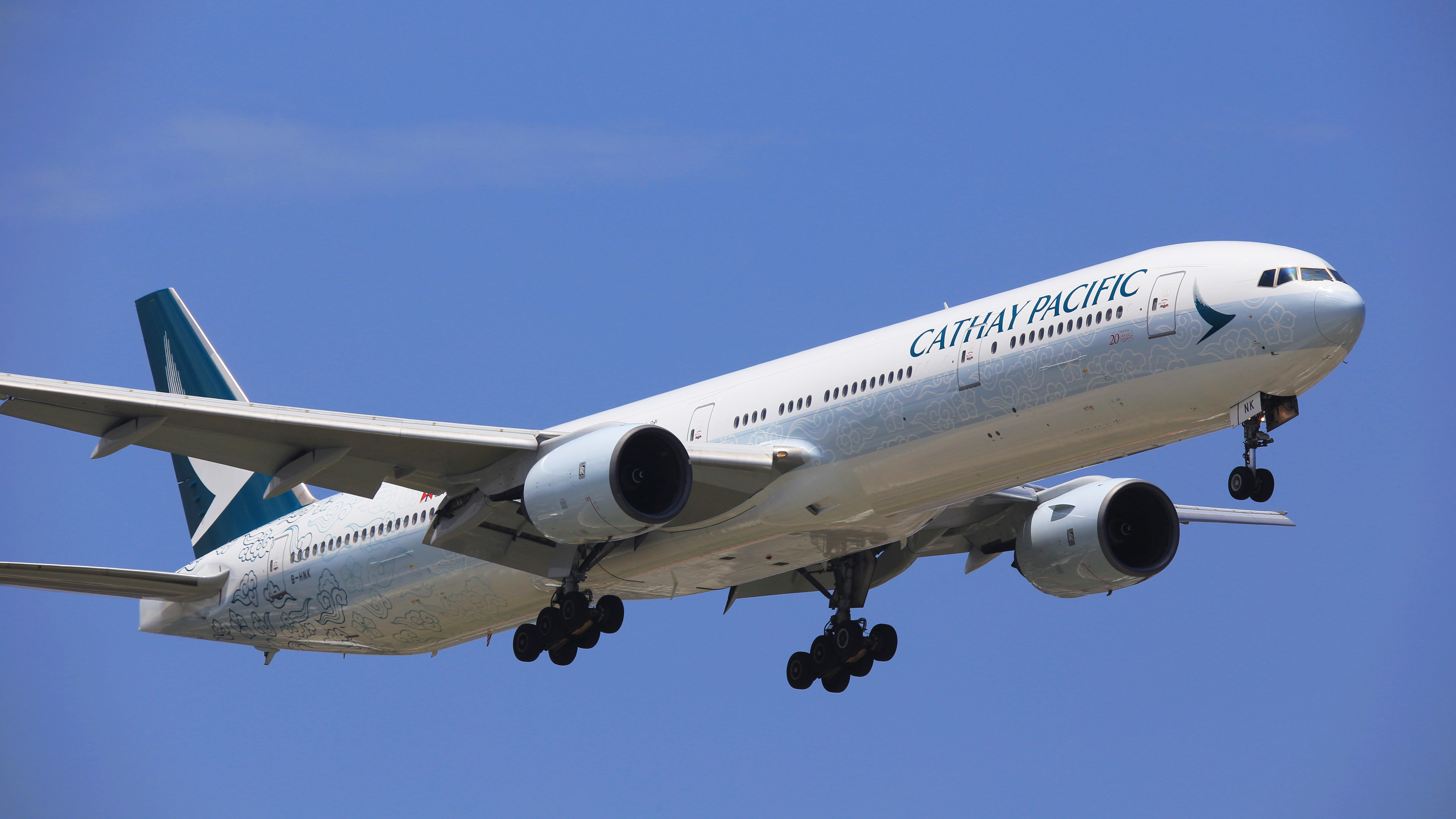 Taiwan Taoyuan International Airport